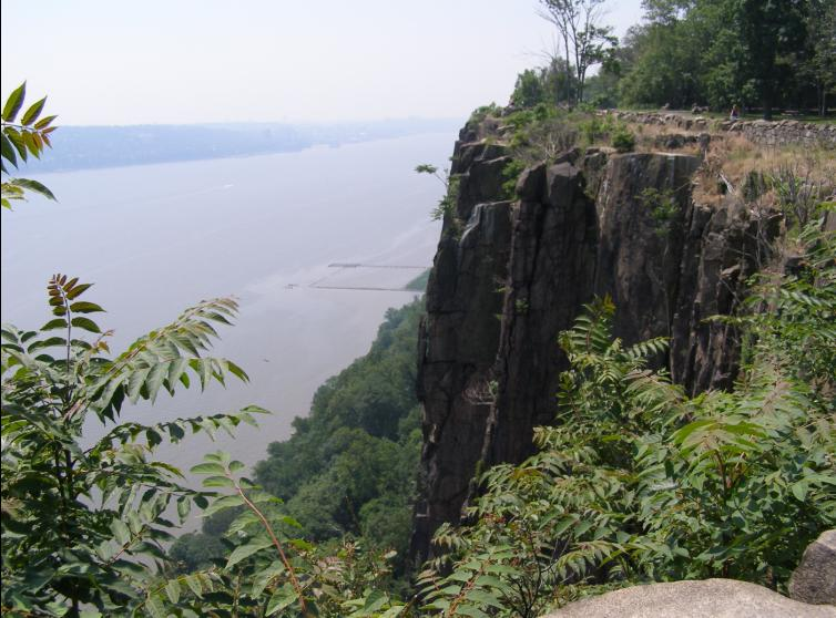 A photograph from atop the Palisades Sill looking south-east across the Hudson River, near Englewood Cliffs, NJ. I took this picture on June 18, 2006.